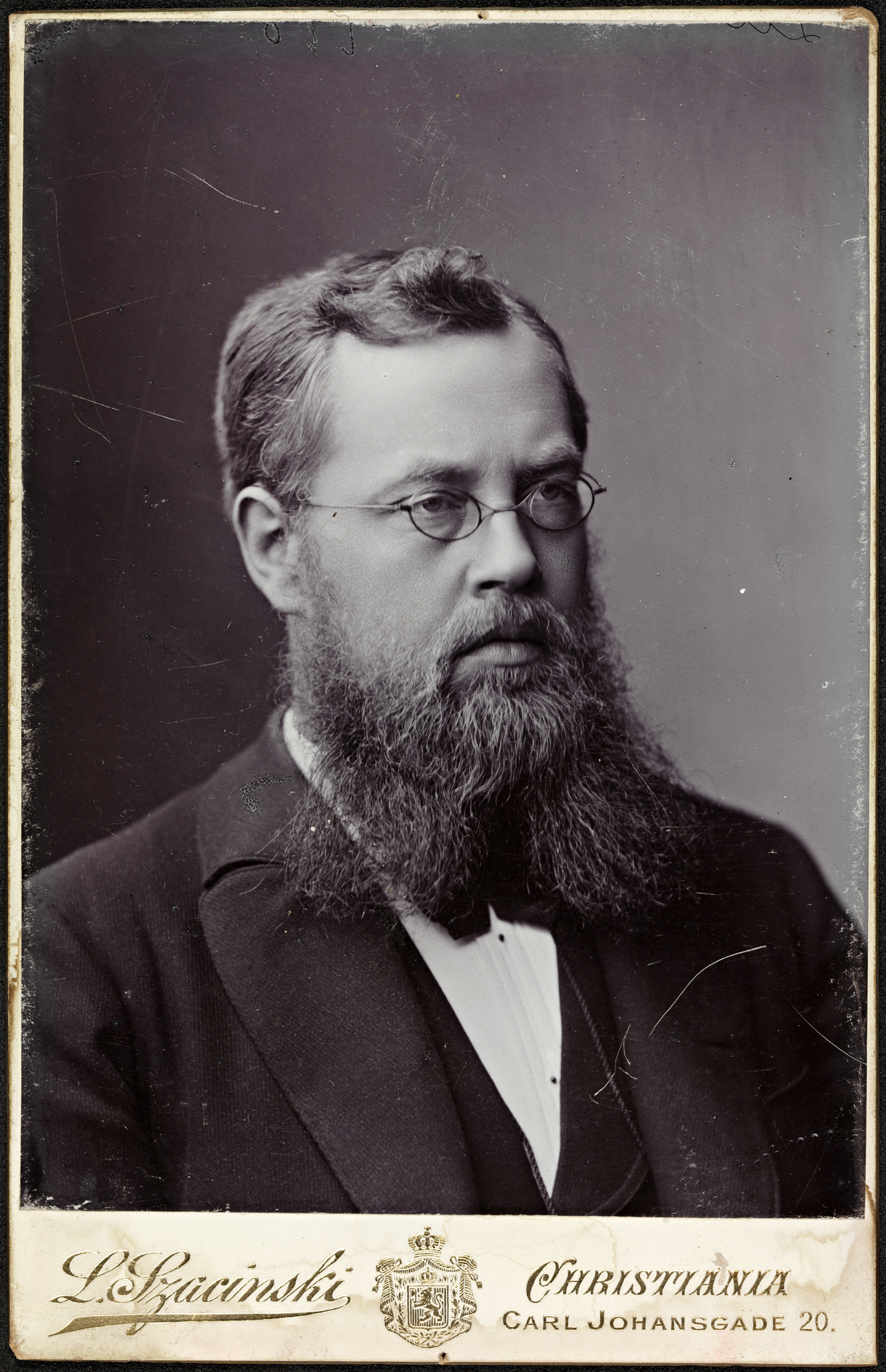 Tittel / Title: Portrett av Sophus Lie (1842-1899) Beskrivelse / Description: Kabinettkort. Dato / Date: 1896 Fotograf / Photographer: L. Szacinski (Christiania) Sted / Place: Oslo Eier / Owner Institution: Nasjonalbiblioteket / National Library of Norway Lenke / Link: Bildesignatur / Image Number: blds_05737